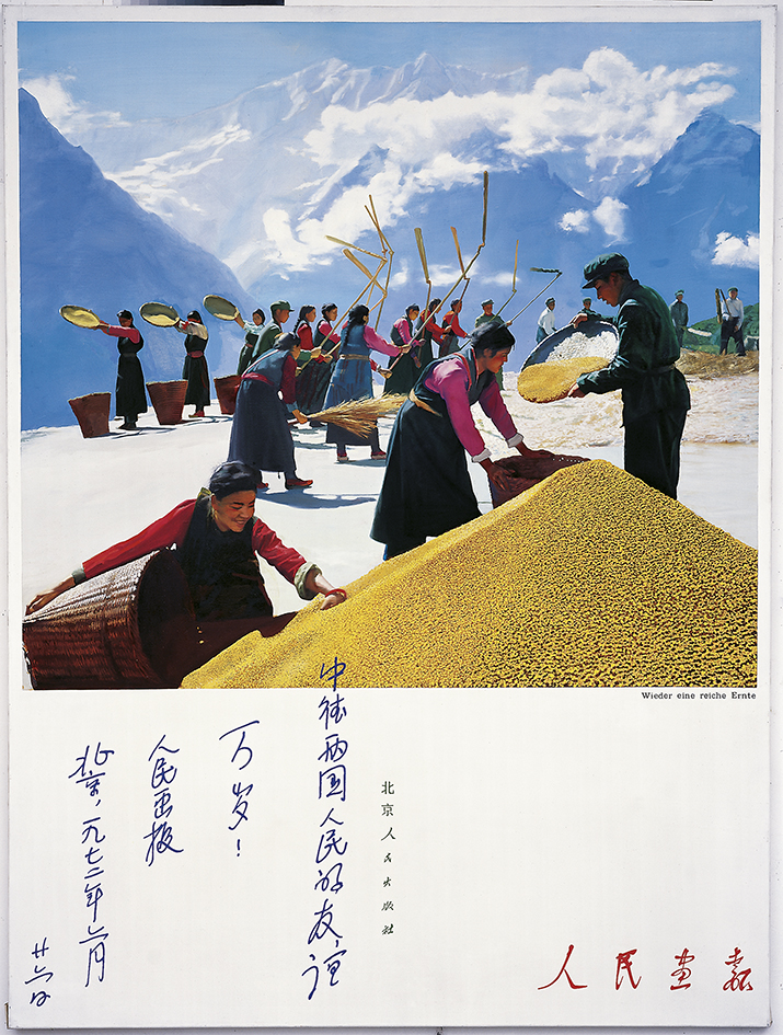 This artwork is to be found in the 80 pages art catalog "László Lakner Chinese Postcard". It shows those works of the artist, which were inspired by Asian culture.